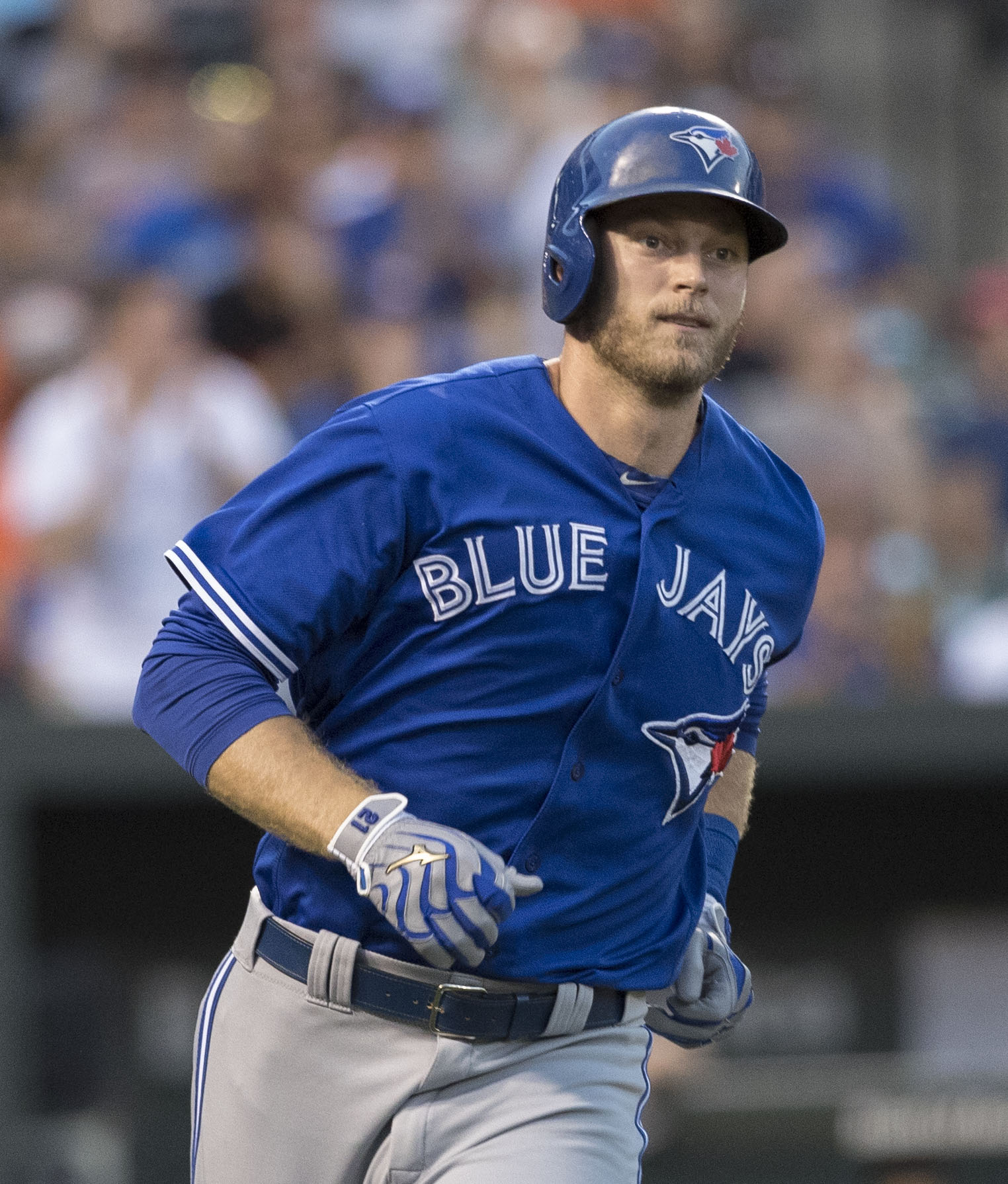 Michael Saunders on August 30, 2016